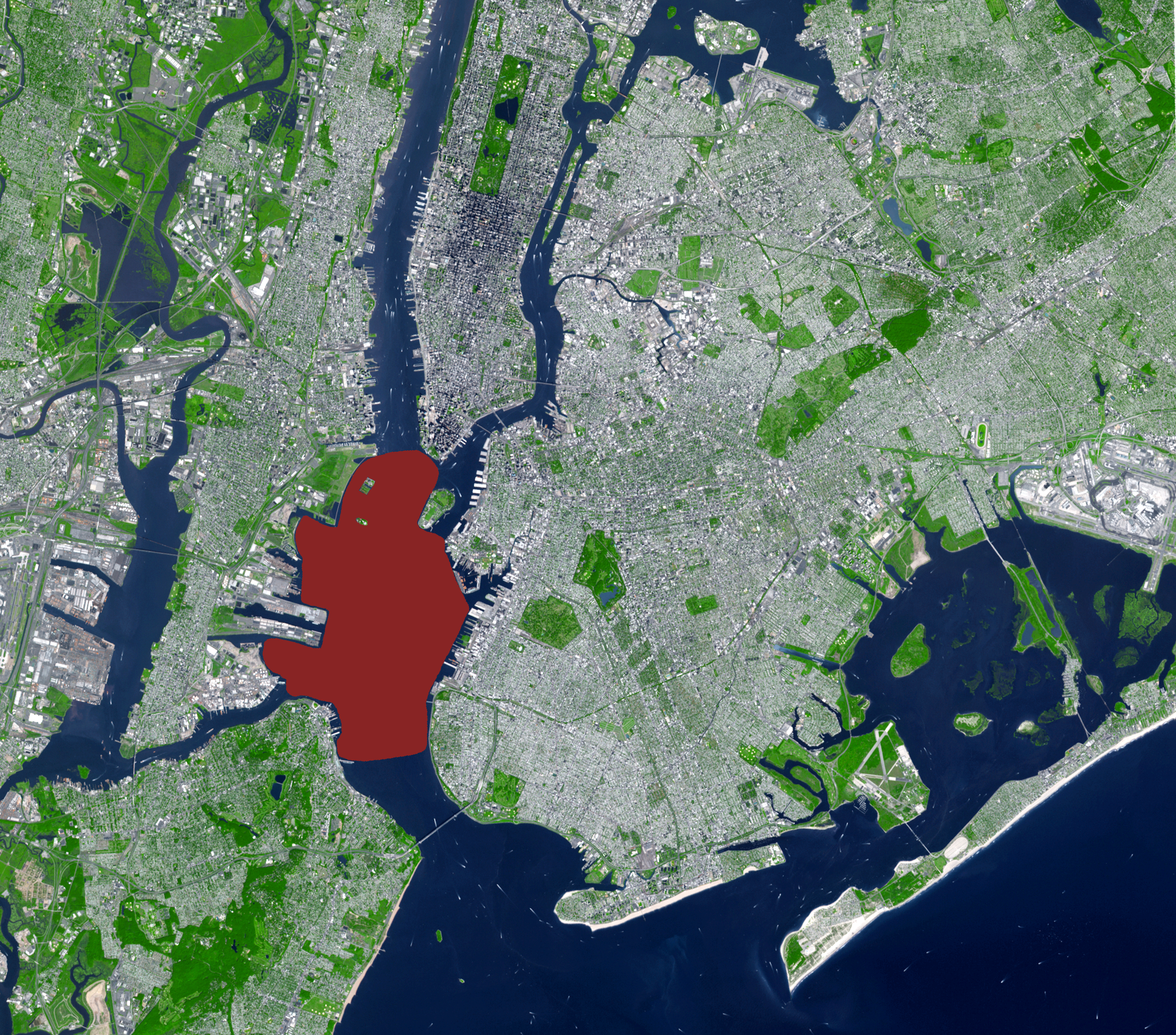 Upper New York Bay in New York Harbor in the United States. Based on original public domain image courtesy of NASA (TERRA satellite) © 2004 Matthew Trump